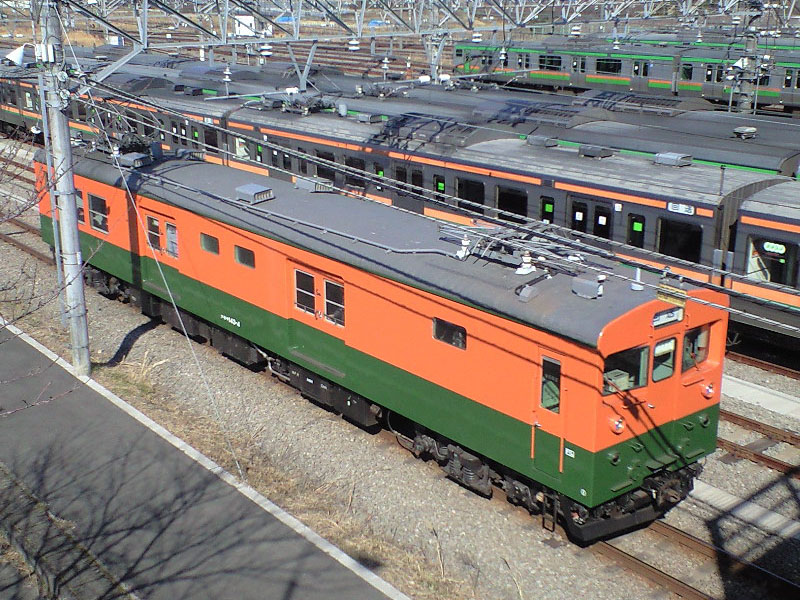 Kumoya 143-4 EMU of JR East, at Kozu Rolling Stock Center in Odawara, Kanagawa. Taken from a public road